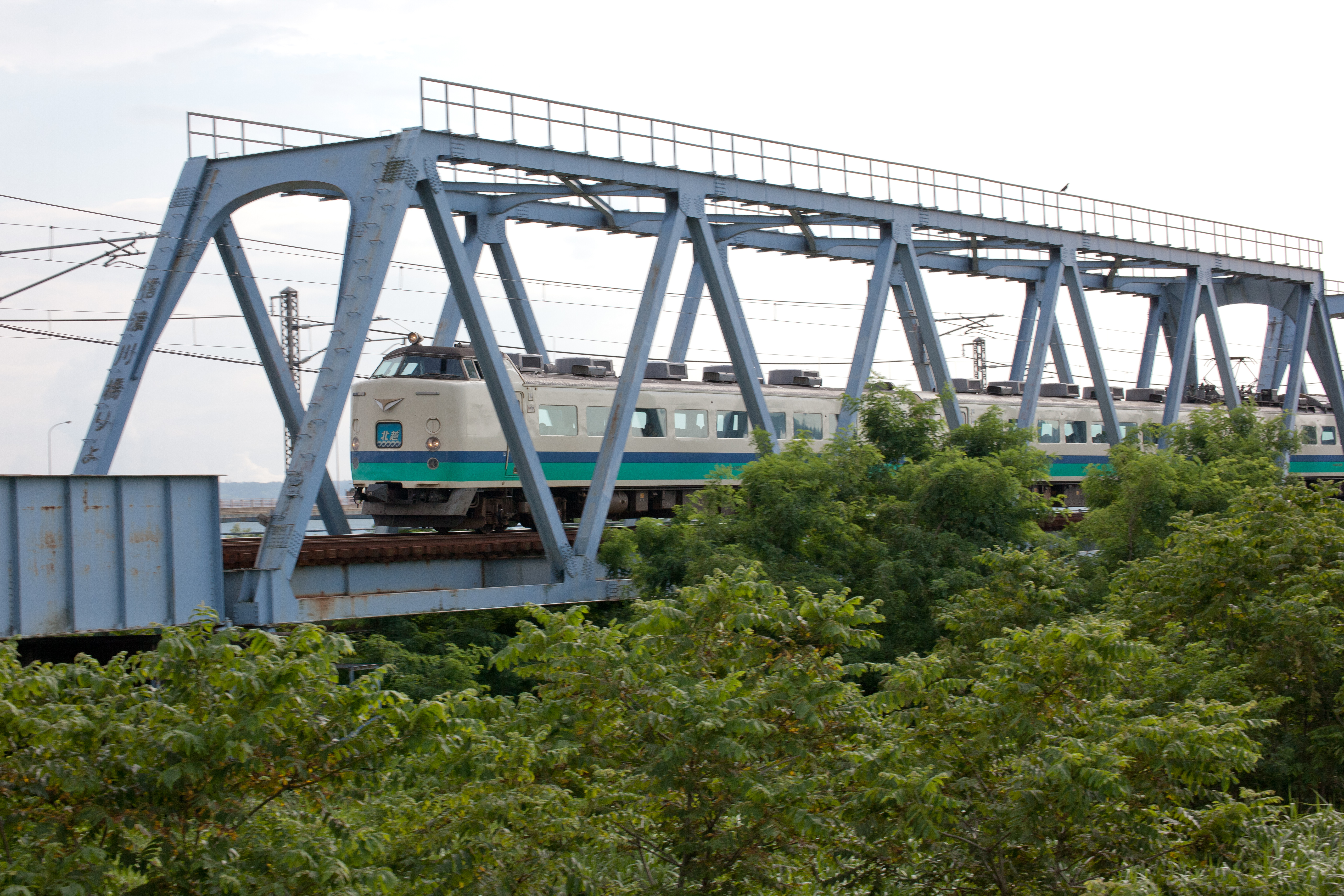 Hokuetsu at Shinanogawa Bridge (Shin'etsu Main Line), Nagaoka, Niigata Prefecture, Japan